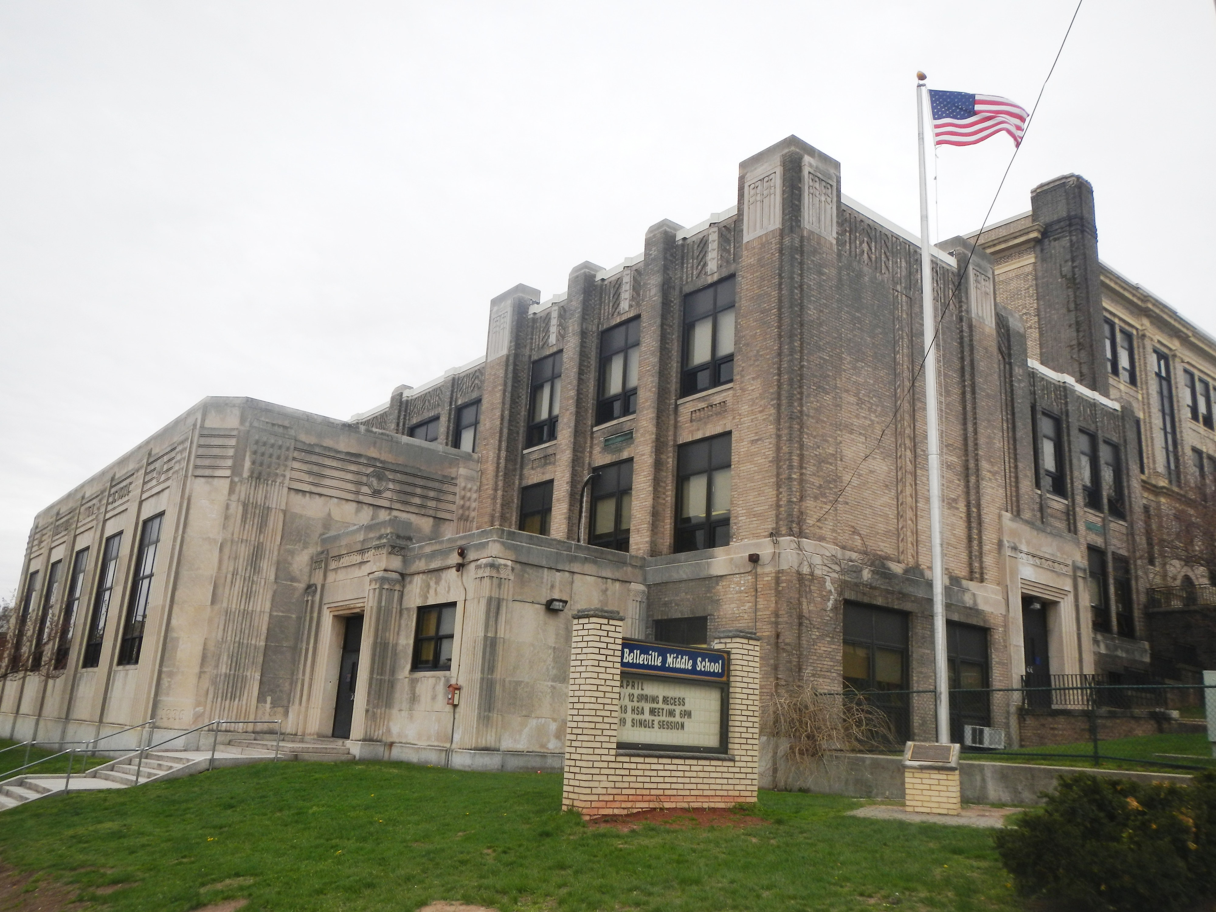 Looking west at school on a cloudy afternoon.